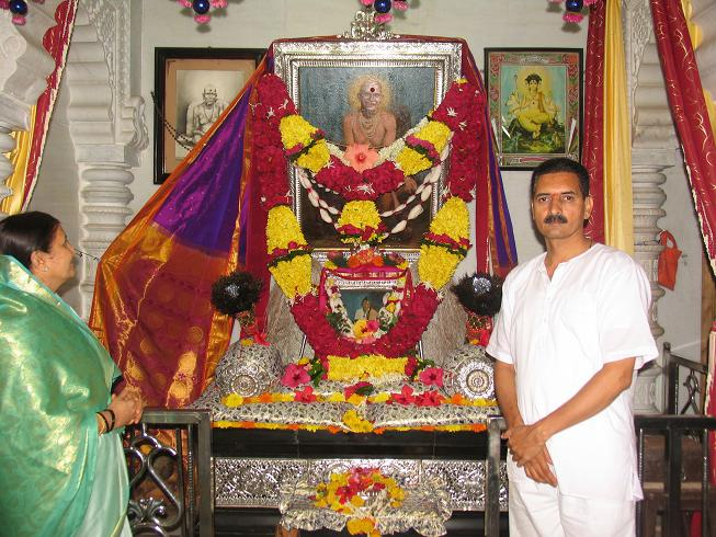 Photo taken at Samadhi place